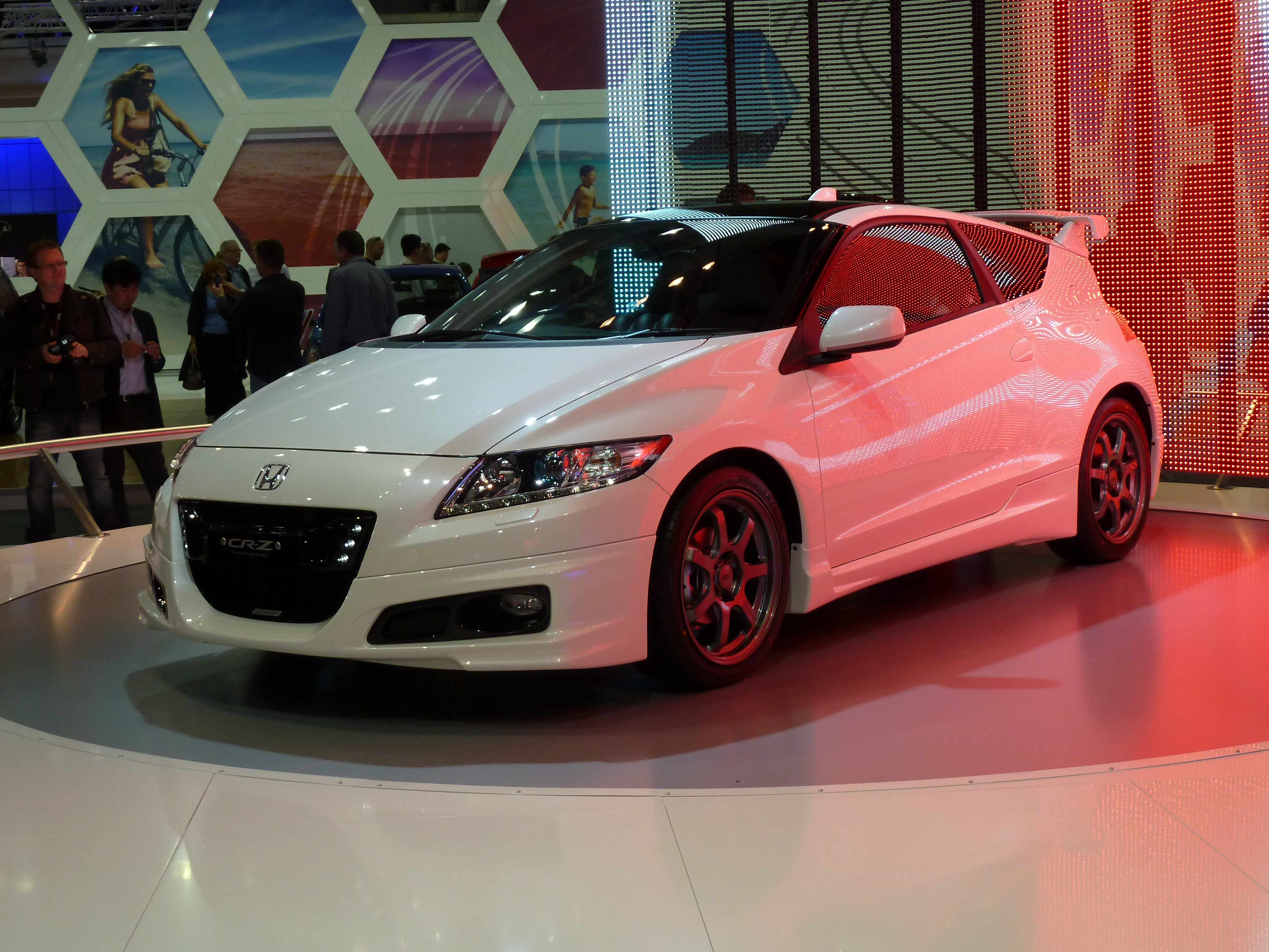 Honda CR-Z Mugen hatchback. Photographed at the 2010 Australian International Motor Show, Sydney, New South Wales, Australia.